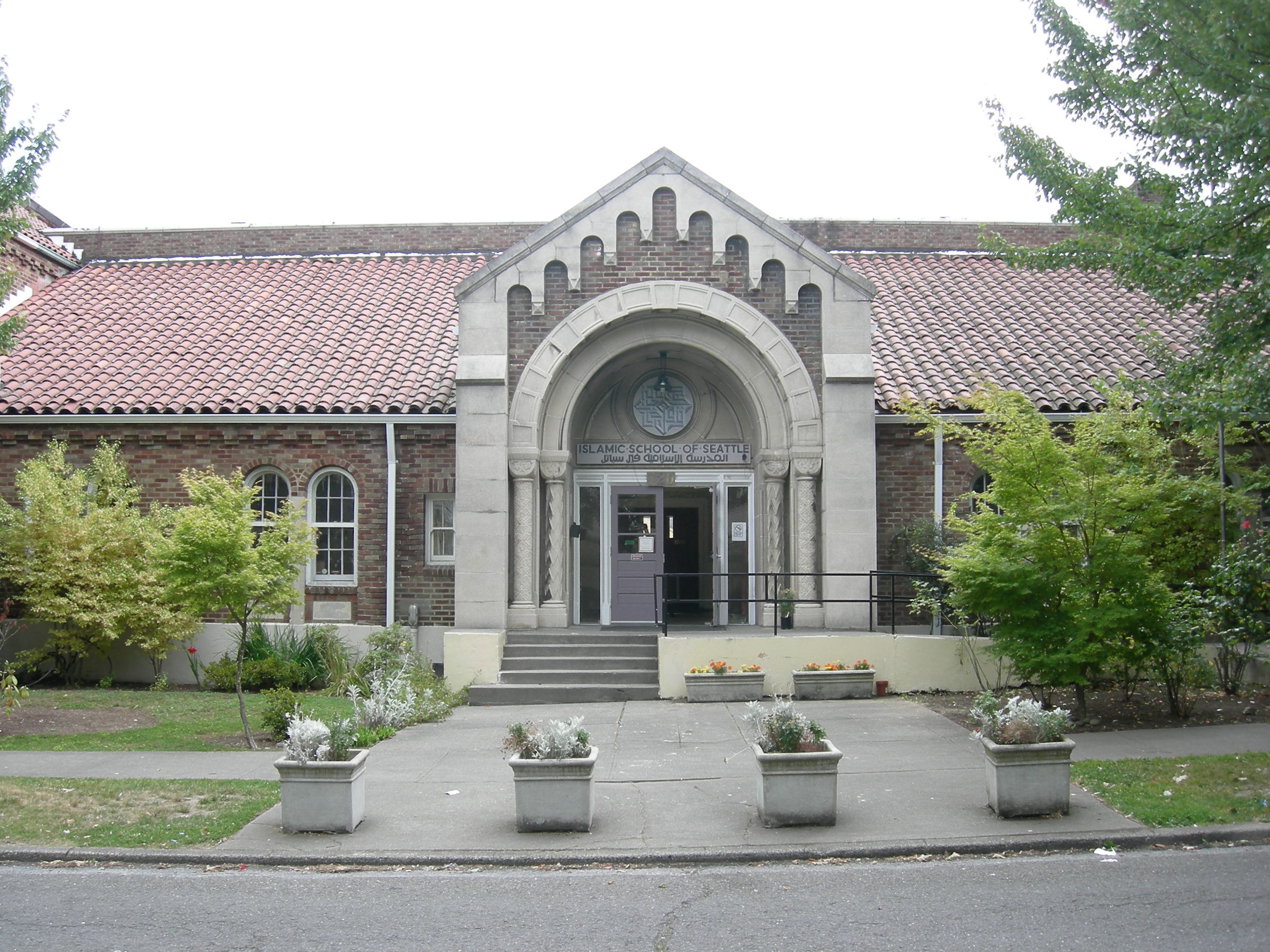 Islamic School of Seattle, 720 25th Avenue, Seattle, Washington. I believe this is the building that once housed Seattle Talmud Torah.